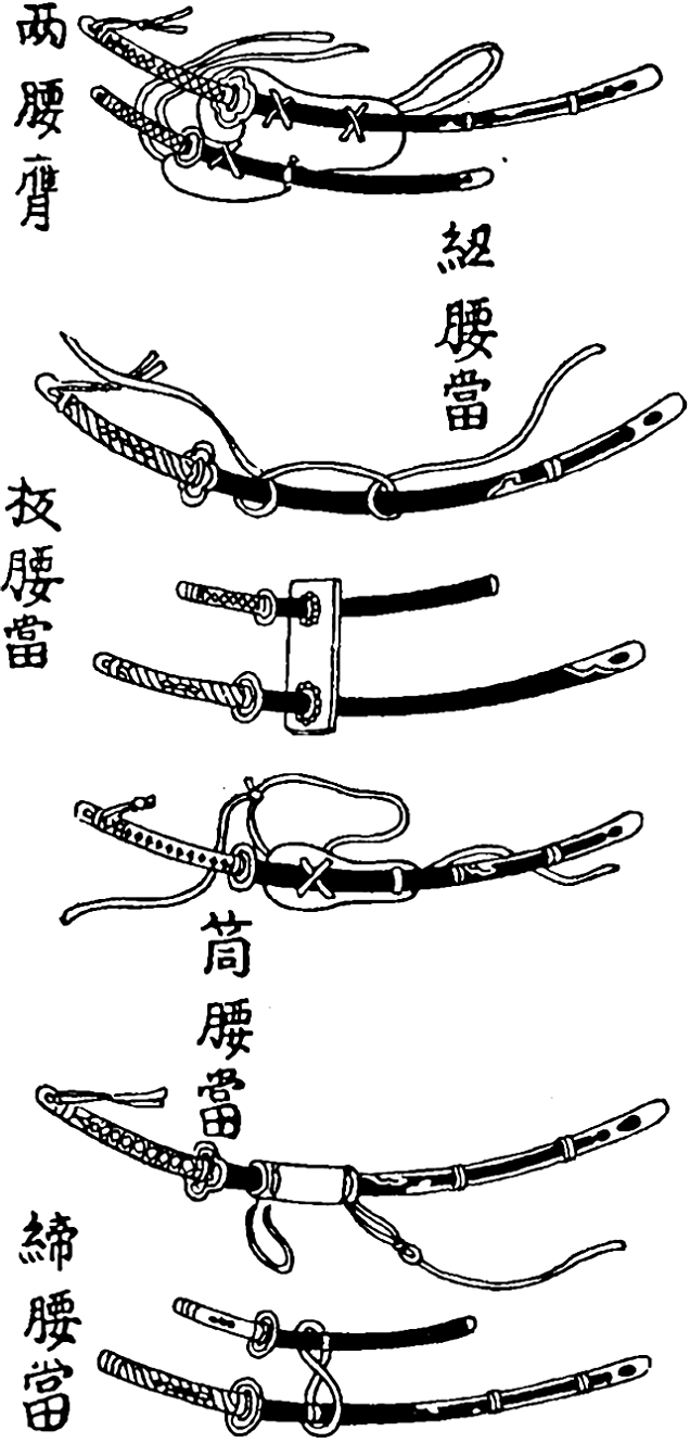 A Japanese Edo period wood block of koshiate (Sword Hangers).